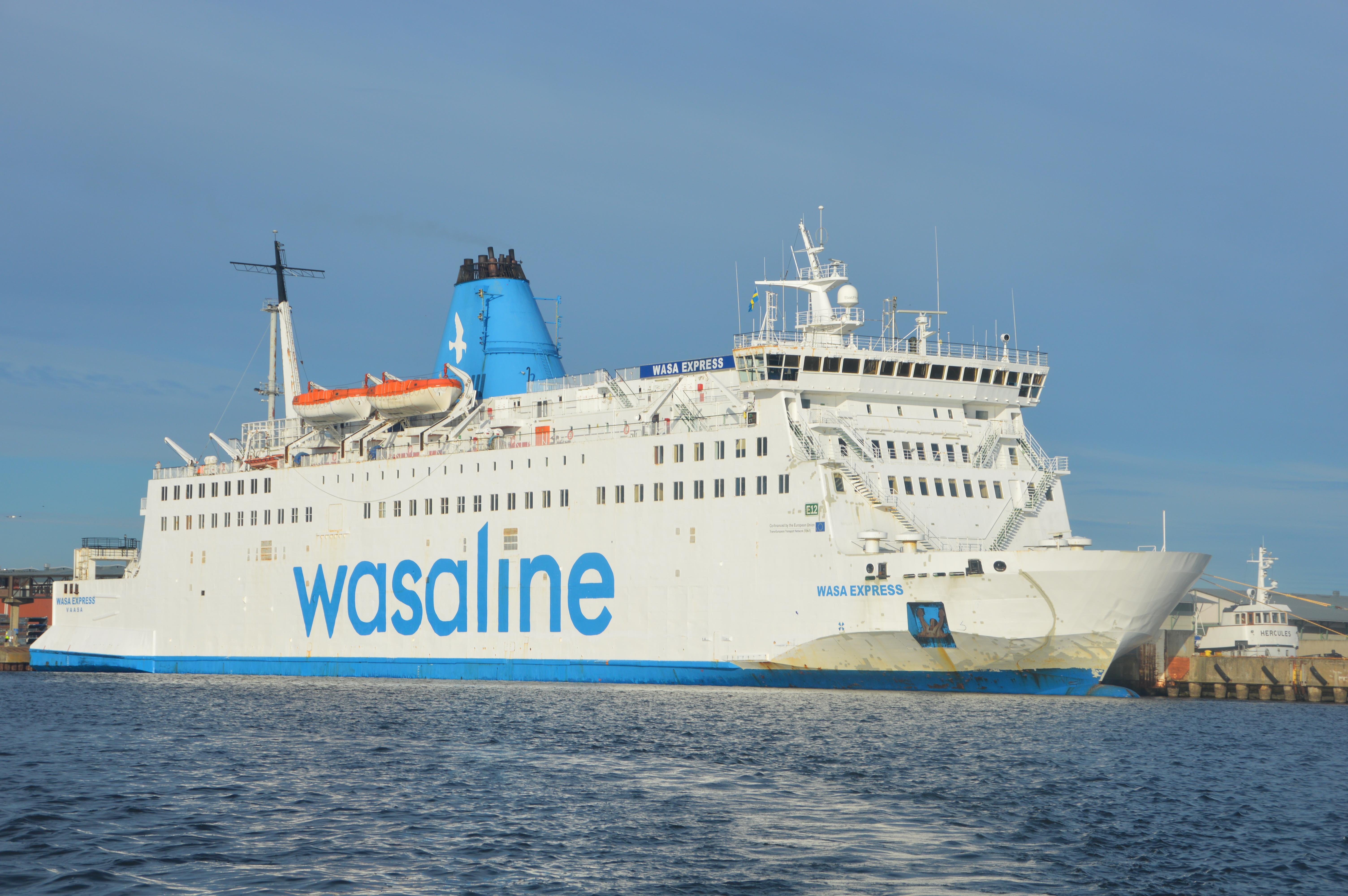 Wasa Express at Vaasa Harbour in 2016.